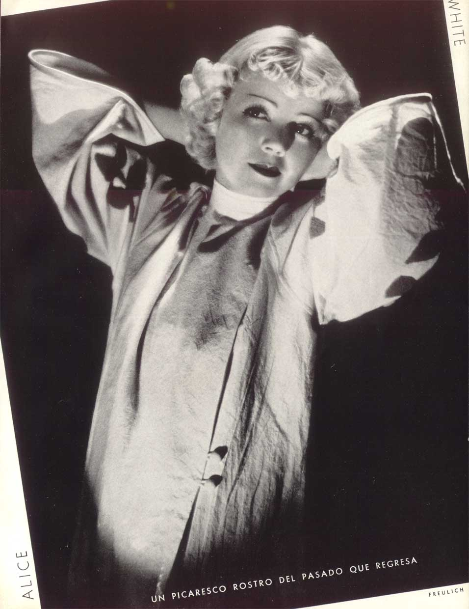 Publicity photo of Alice White for Argentinean Magazine. (Printed in USA)